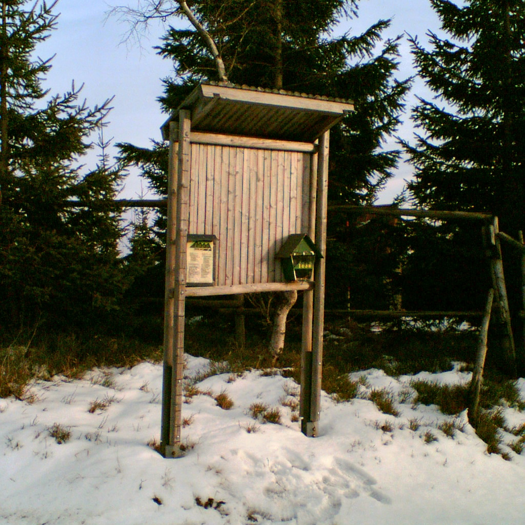 Summit of Dub in the Ore Mountains (Krušné hory)